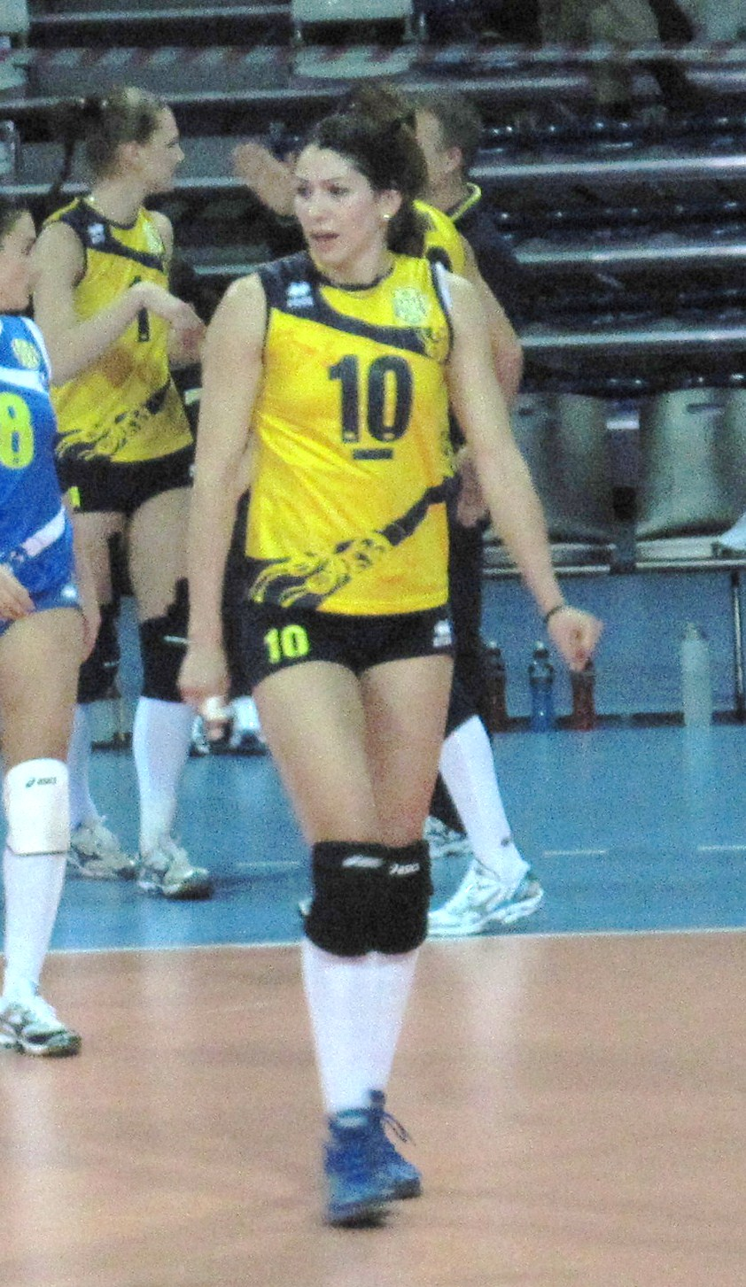 Bulgarian volleyball player Radosveta Milichevich.